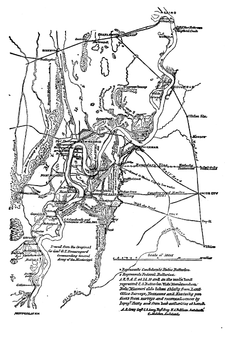 Map of Mississippi River near New Madrid, MO